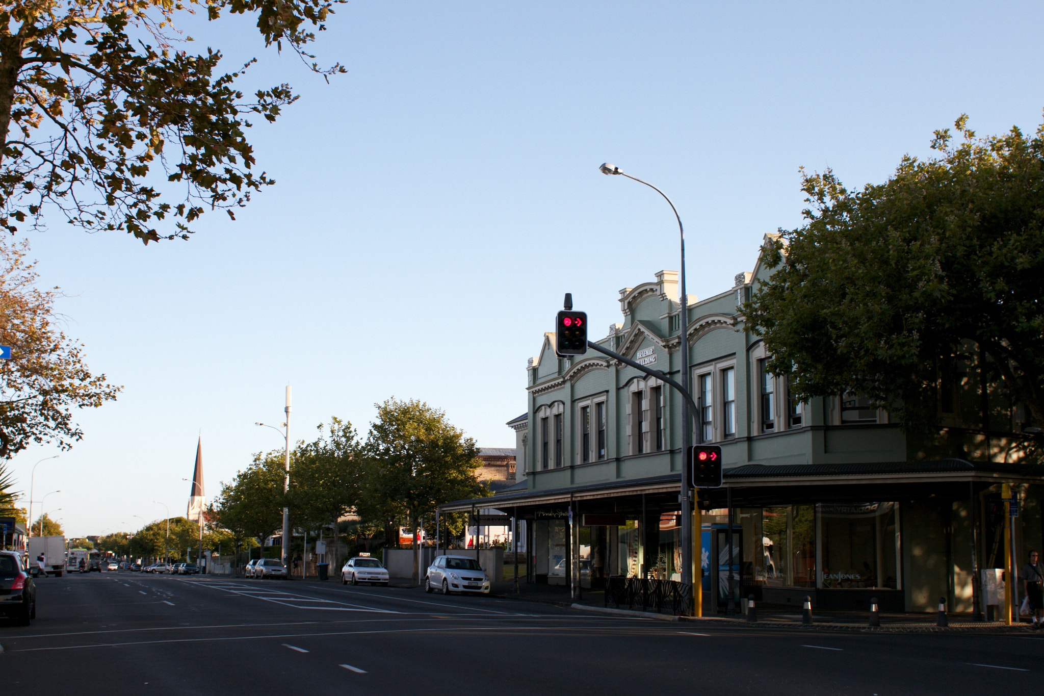 500px provided description: Franklin Road